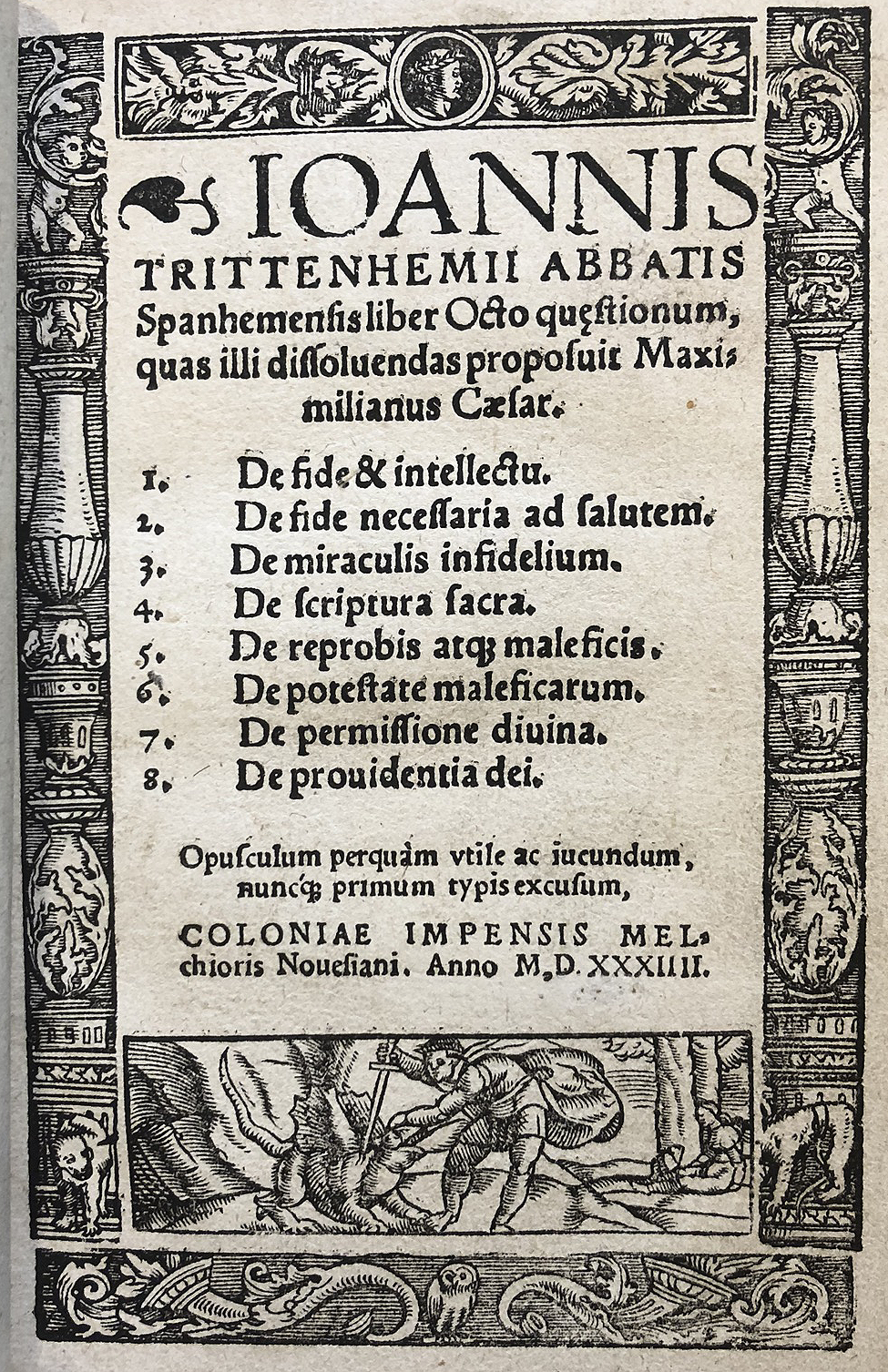 This is the title page of Johannes Trihemius' book "Liber octo quaestionum, quas illi dissoluendas proposuit Maximilanus".